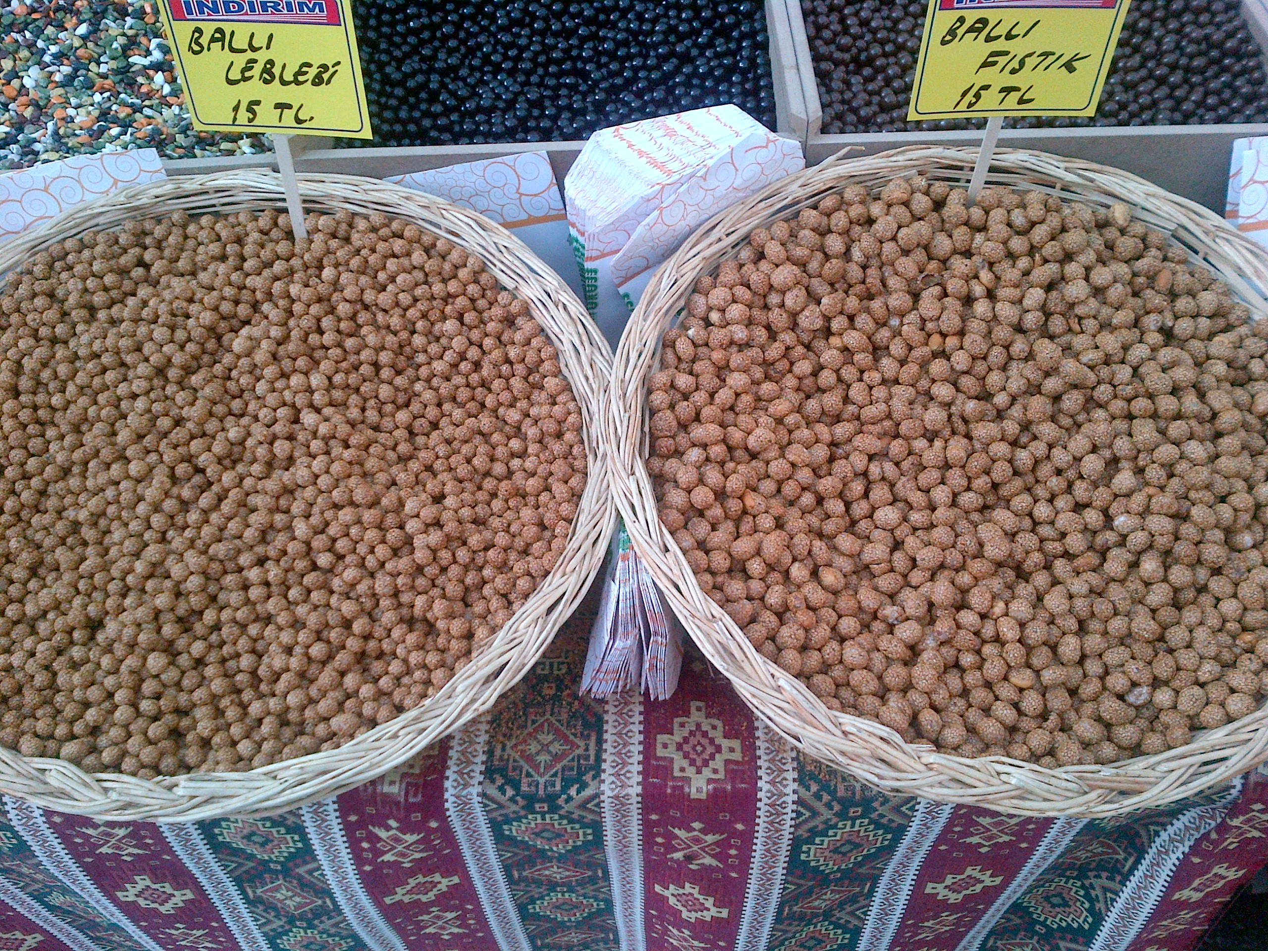 Leblebi with honey (left) - peanuts with honey (right)